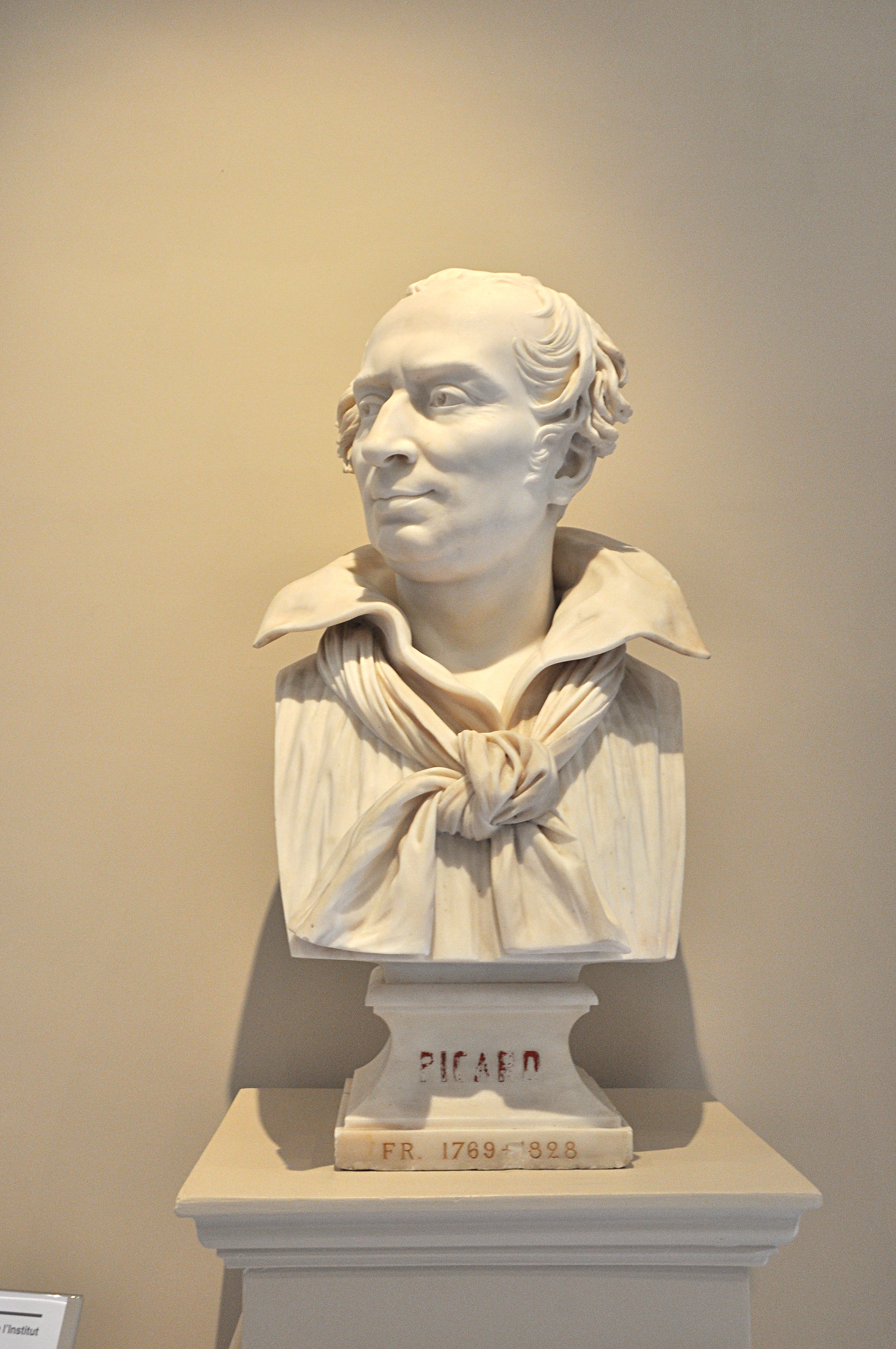 Bust of Louis-Benoît Picard, french writer, in the Institut de France located in the 6th arrondissement of Paris in France.